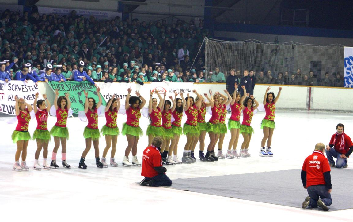 Cheerleader of the Aachen Steelers team at the Ice hockey competition Uni-Cup 2009 of the University Sports Centre of Aachen University for the ThyssenKrupp-Trophy, Aachen, Germany